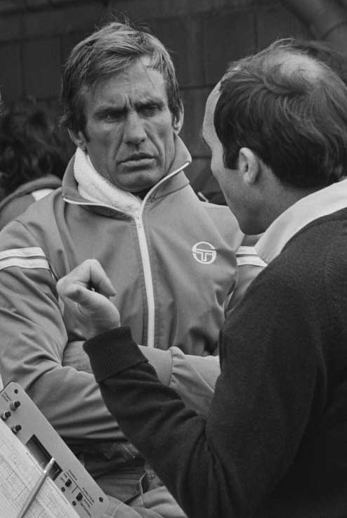 Argentine racer Carlos Reutemann with team owner Frank Williams.